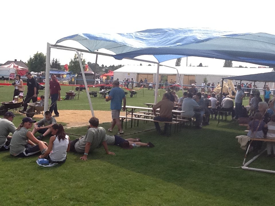 Scene during the 11th Wheelbarrow Olympics in Hosszúhetény, Hungary, in 2011.